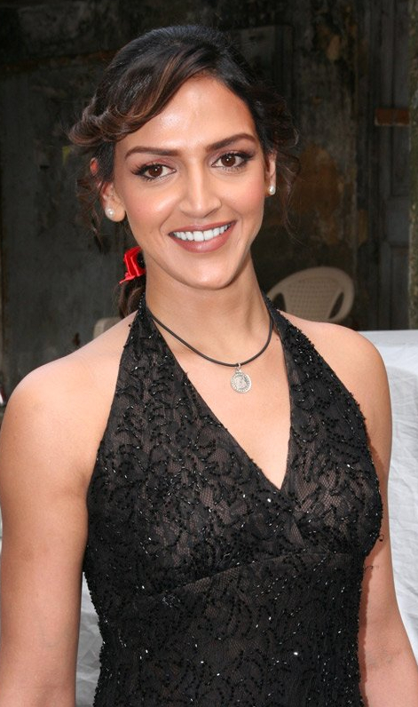 Esha Deol at the 2007 Muhurat shot for One Two Three